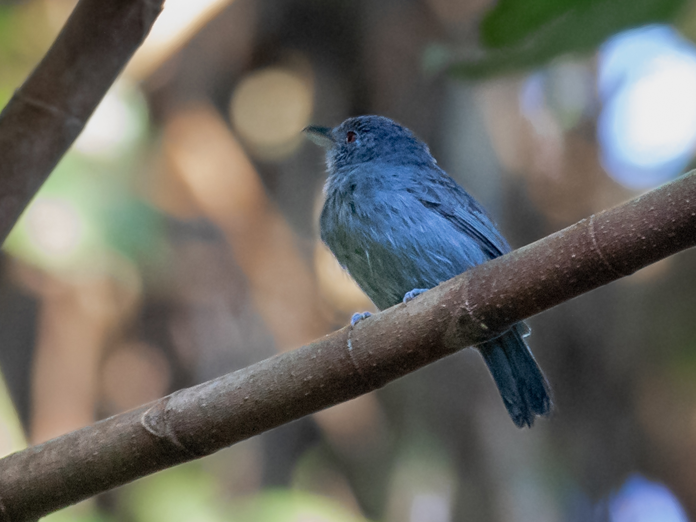 Plain-winged Antshrike (male), Parauapebas, Pará, Brazil Словѣньскъ / ⰔⰎⰑⰂⰡⰐⰠⰔⰍⰟ: Batará alillano (macho); Parauapebas, Pará, Brasil